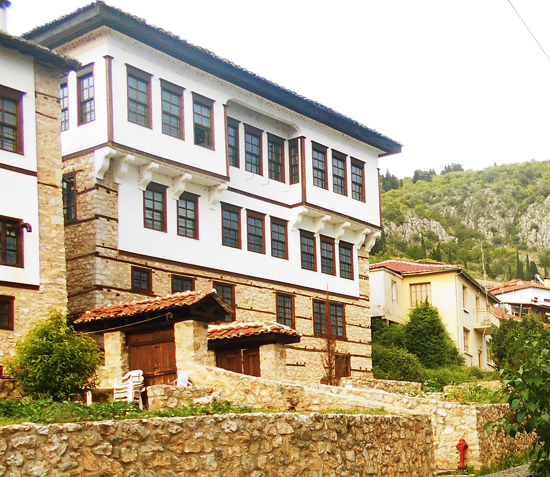 This is a photography of Natura 2000 protected area with ID Kastoria